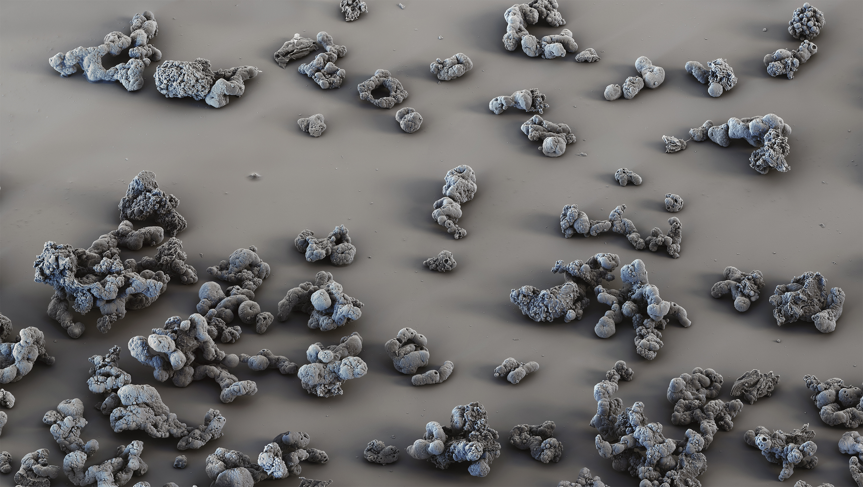 Panorama of a Landscape, Andreas Greiner together with S.Diller, cpo Berlin, Courtesy DITTRICH & SCHLECHTRIEM, Berlin, 2018